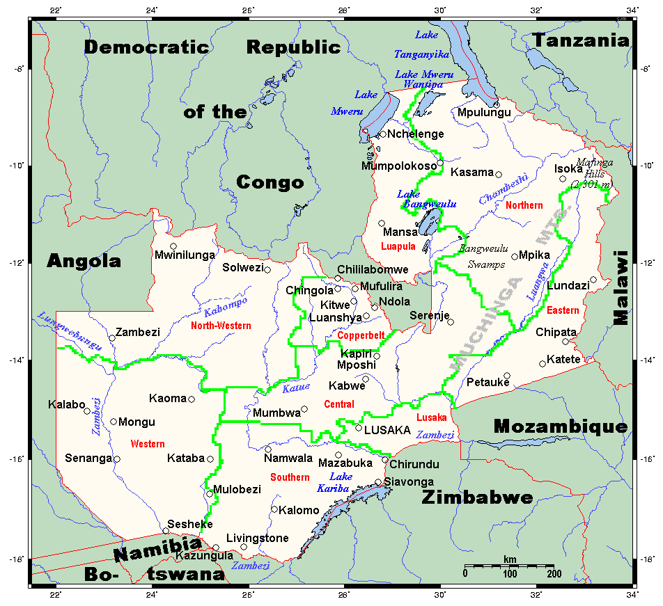 This map has been uploaded by Electionworld from to enable the Wikimedia Atlas of the World . Original uploader to was Kelisi, known as Kelisi at . Electionworld is not the creator of this map. Licensing information is below. Map of Zambia, major towns, waterways, physical features, etc. This map's source is here, with the uploader's modifications, and the GMT homepage says that the tools are released under the GNU General Public License.